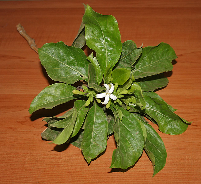 Morinda citrifolia - Great morinda, Indian mulberry, Beach mulberry, Tahitian Noni, Mengkudu, cheese fruit or Ach in Guntur, Andhra Pradesh, India.